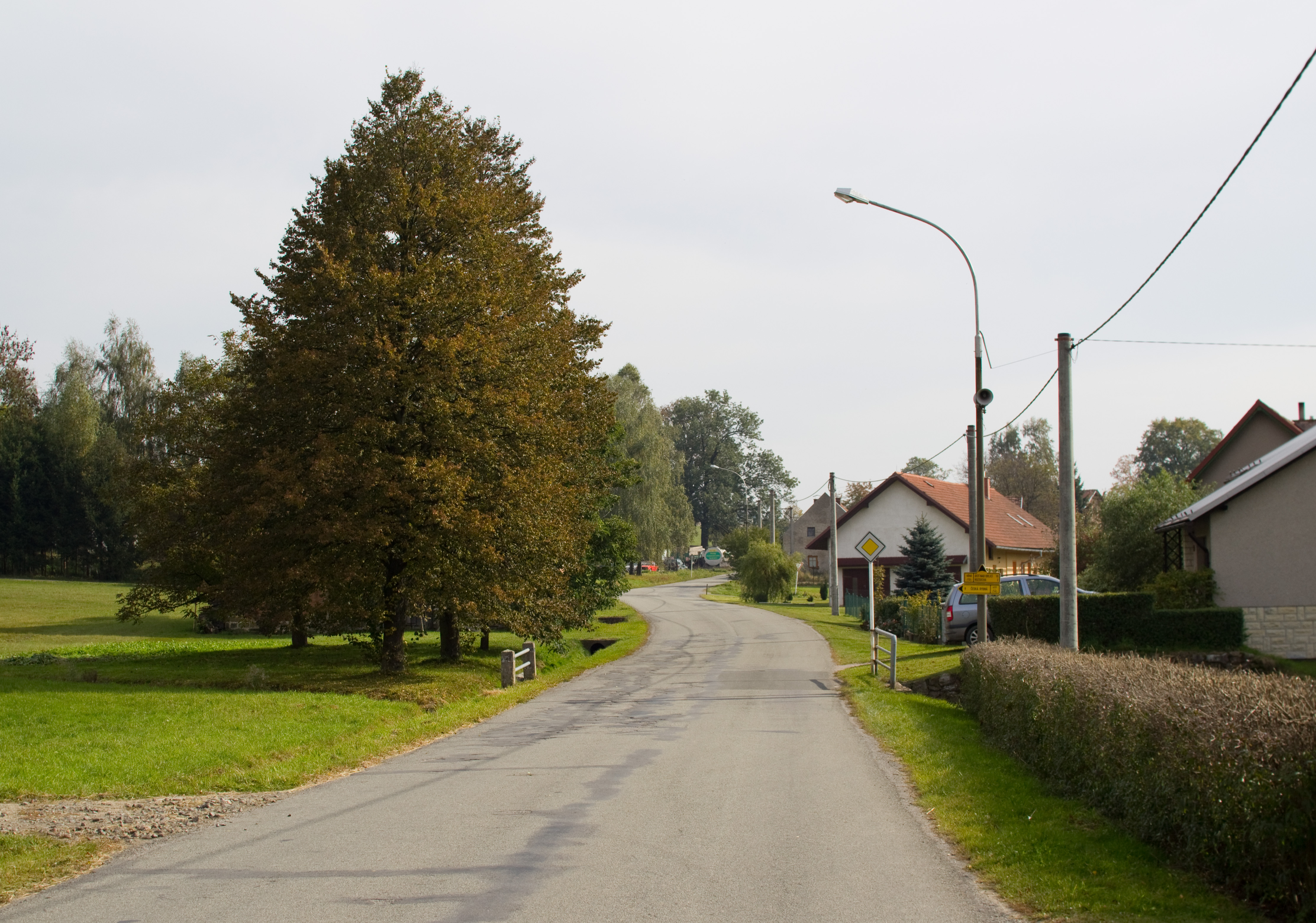 Road, Velká Skrovnice, Rychnov nad Kněžnou District, Hradec Králové Region